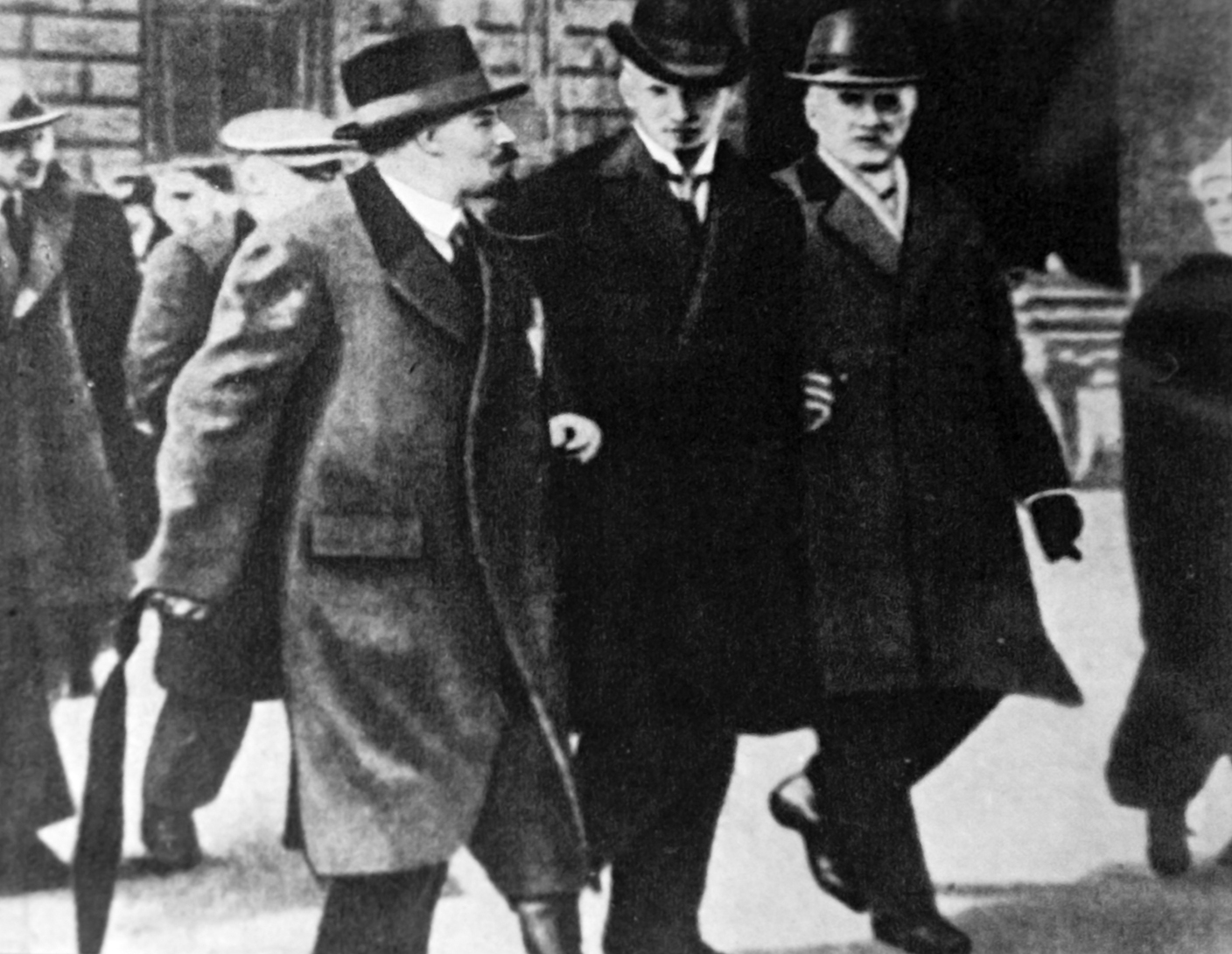 Lenin in Stockholm, outside Stockholms Centralstation with Ture Nerman and Carl Lindhagen